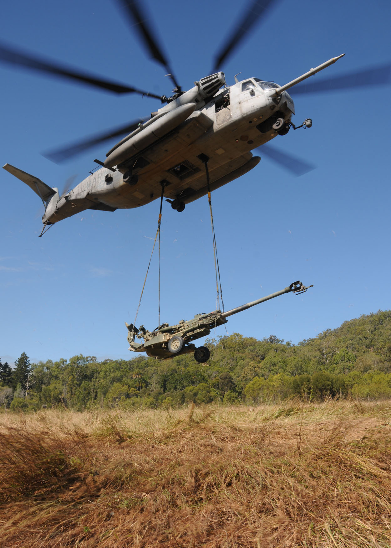 SHOALWATER BAY, Australia (July 19, 2009) An MH-53E Sea Stallion helicopter, assigned to the Air Combat Element of the 31st Marine Expeditionary Unit, embarked aboard the forward-deployed amphibious assault ship USS Essex (LHD 2) lifts an M777 155mm lightweight Howitzer as a part of exercise Talisman Saber 2009. Talisman Saber is a biennial, combined training activity designed to train Australian and U.S. forces in planning and conducting combined operations, which will help improve combat readiness and interoperability between Australian and U.S. forces. (U.S. Navy photo by Mass Communication Specialist 2nd Class Mark R. Alvarez/Released)